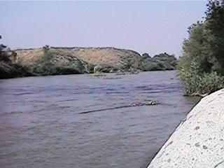 Santa Ana River upstream of Riverside, CA